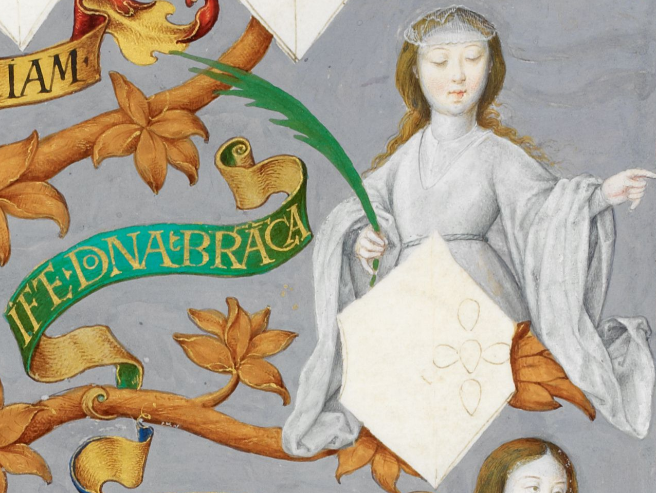 D. Blanche (c. 1192-1240), Infanta of Portugal and Lady of Guadalajara.